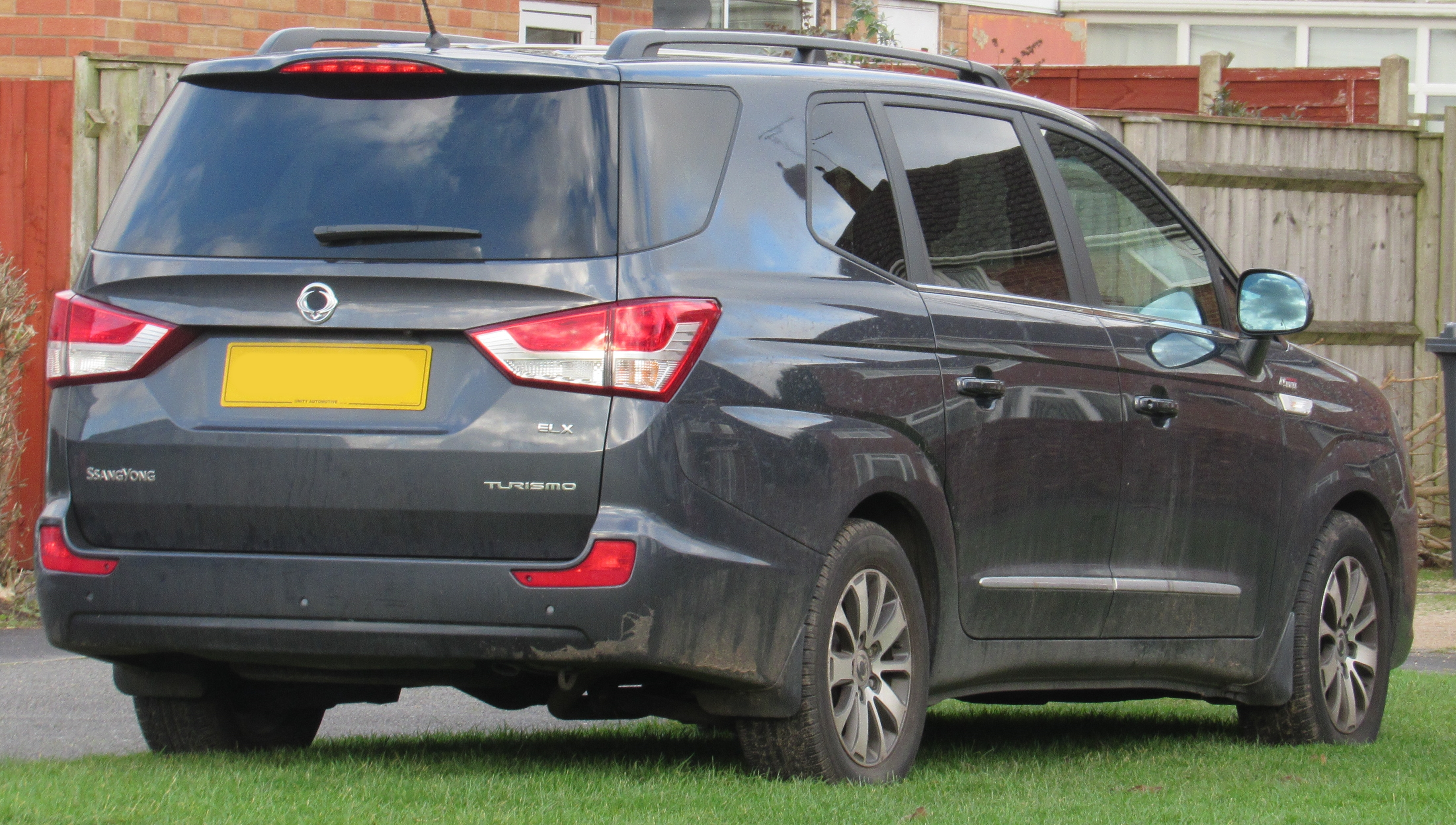 2016 SsangYong Rodius Turismo ELX 4X4 2.2 Taken in Warwick